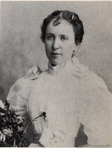 The Improvement Era by The Church of Jesus Christ of Latter-day Saints Publication date 1964-01-00 Topics Mutual Improvement Association (1875-1972) -- Periodicals, Church Periodicals Publisher Salt Lake City, The Church of Jesus Christ of Latter-day Saints 1897-1970 Collection improvementera; churchhistorylibraryperiodicals; churchhistorylibrary; americana Digitizing sponsor Corporation of the Presiding Bishop, The Church of Jesus Christ of Latter-day Saints Contributor Church History Library, The Church of Jesus Christ of Latter-day Saints Language English Volume 67 no. 01 73 v. 22 – 28 cm Call number M205.1 I34 v. 1-73 1897-1970 Identifer-bib 000038650 Identifier improvementera6701unse Identifier-ark ark:/13960/t51g1w92f Ocr ABBYY FineReader 8.0 Page-progression lr Pages 77